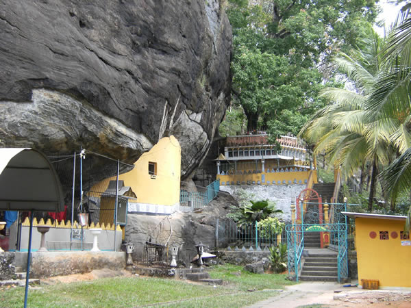 කොරතොට රජමහා විහාරය